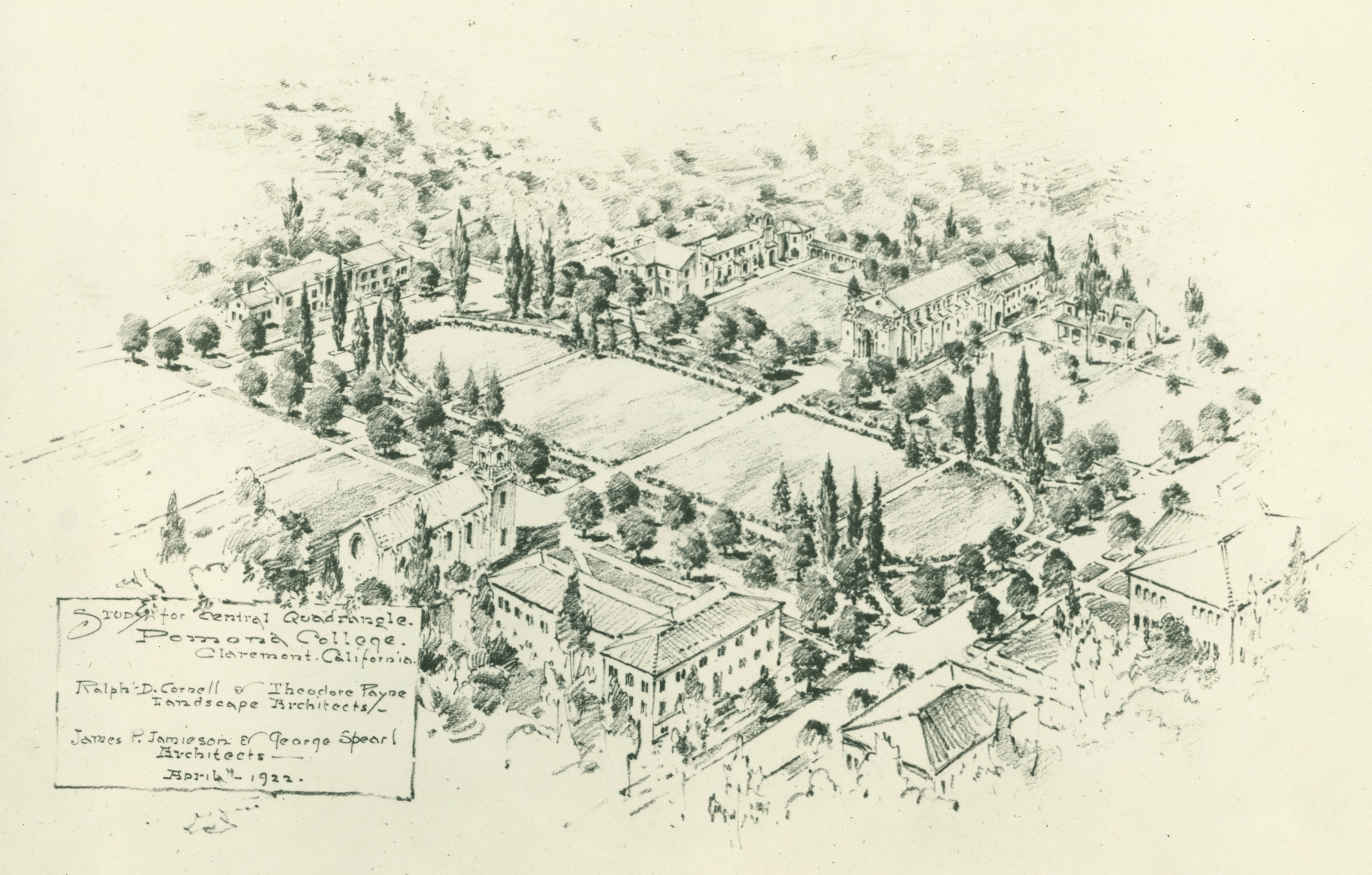 Architect's plan for a central Quadrangle within surrounding campus at Pomona College. Title reads: "Study for Central Quadrangle"